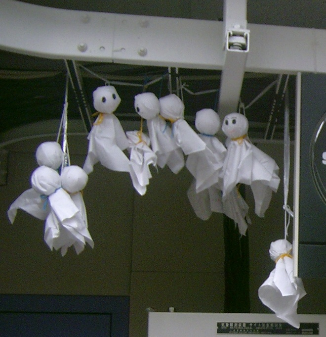 Picture taken by myself in the control room of the telescope Subaru (of public access).